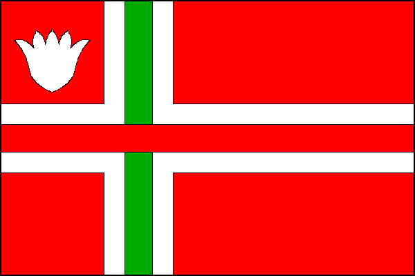 Municipal flag of Liberk village, Rychnov nad Kněžnou District, Czech Republic.